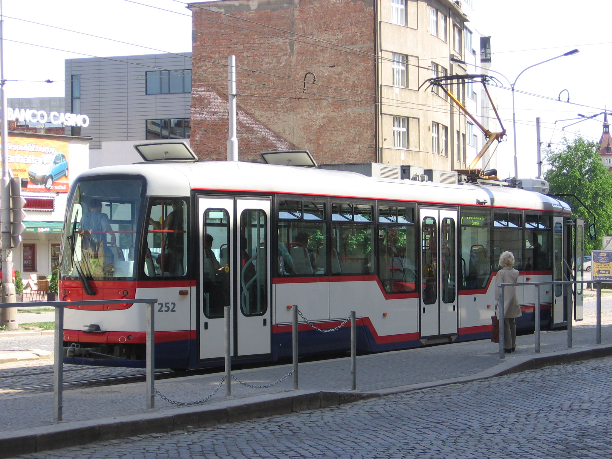 Tram Vario LF in Olomouc (Czech Republic) - rear view